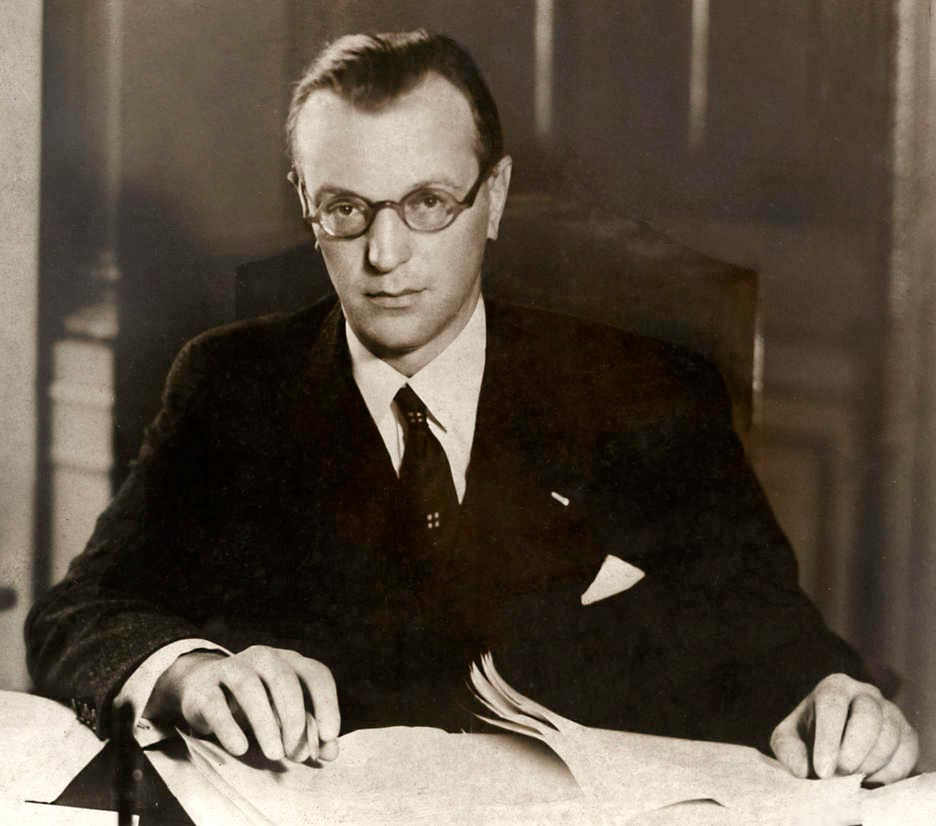 Arthur-Seyss-Inquart in 1940.